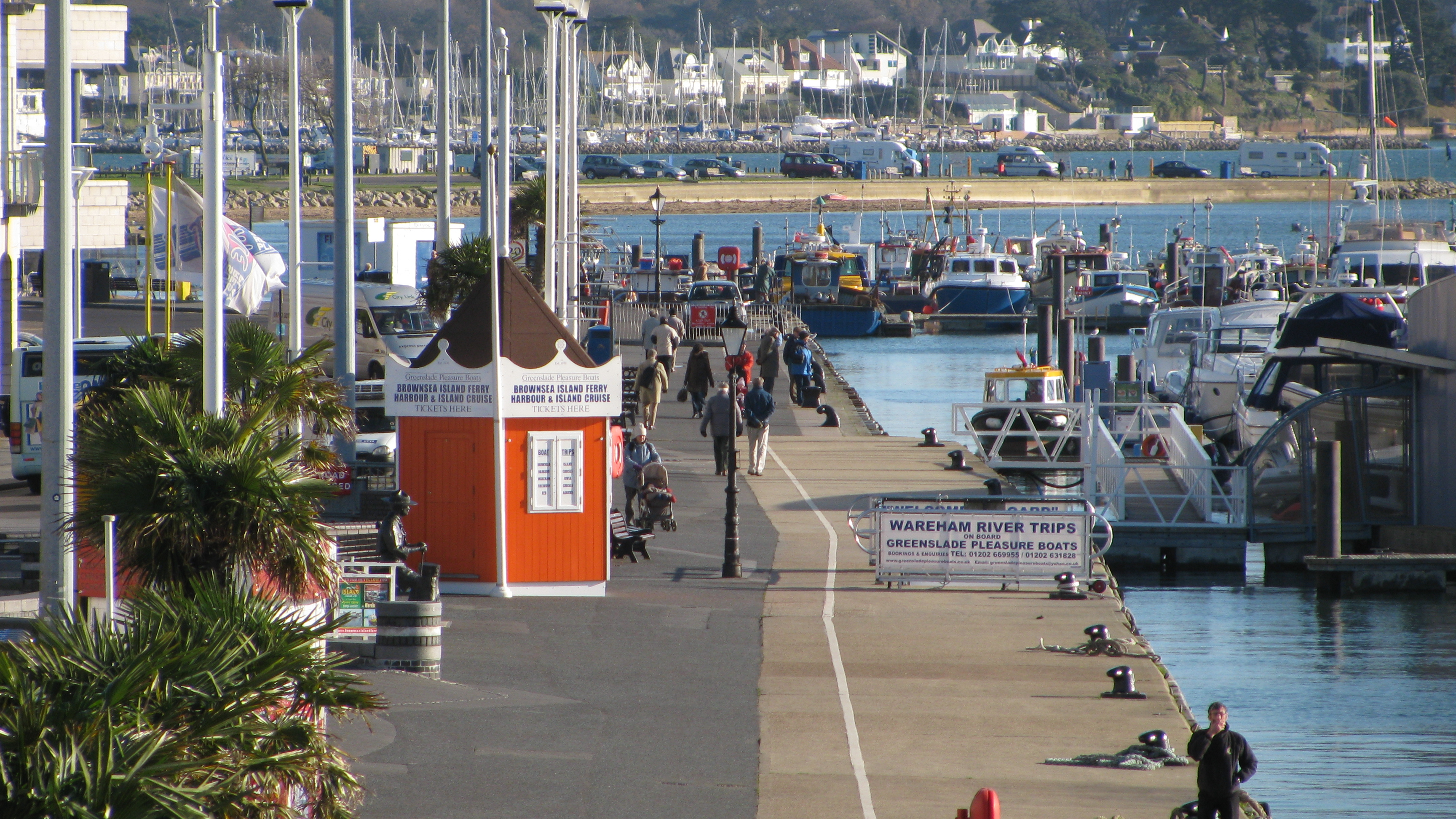 Poole Quay